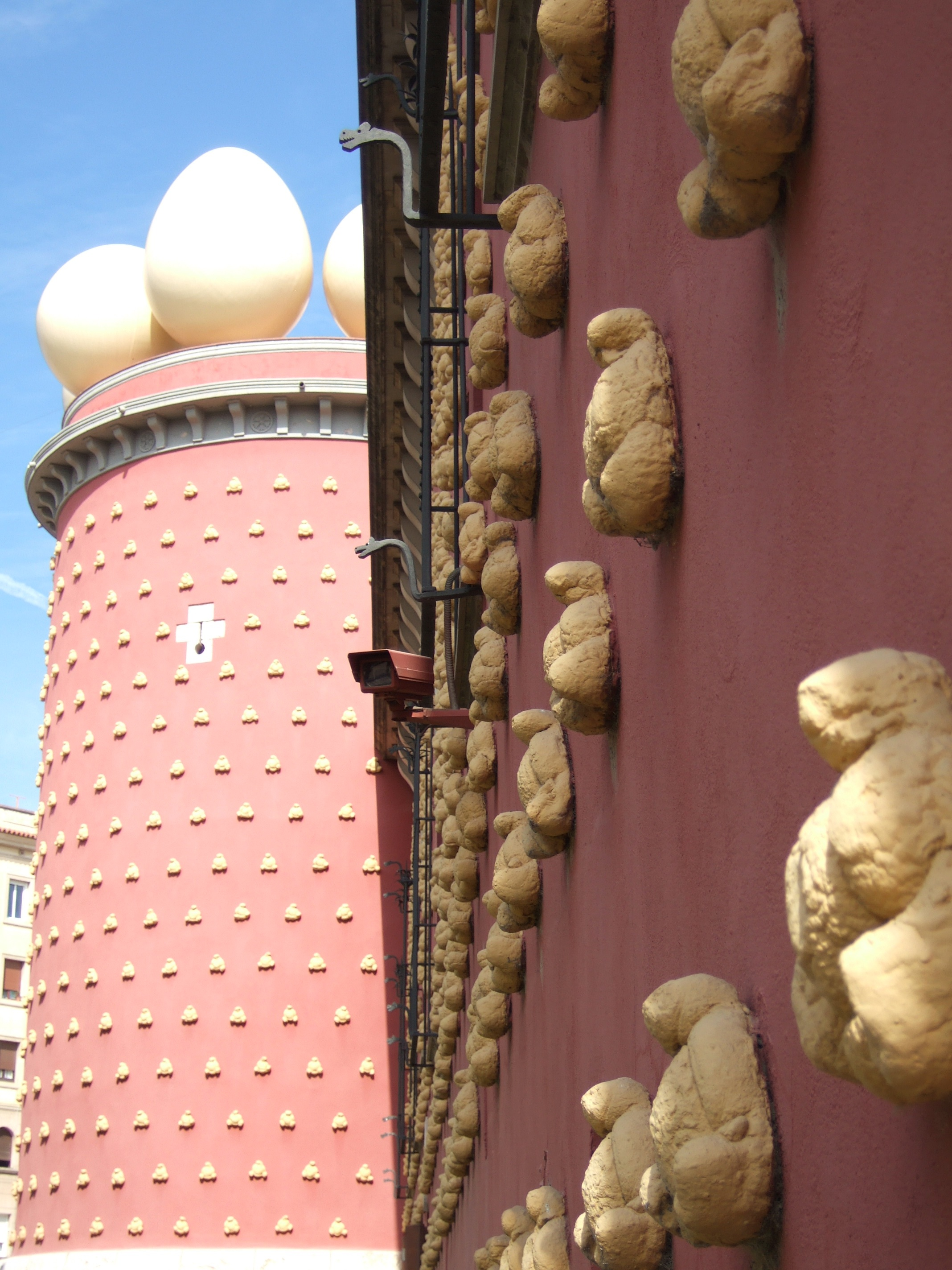 Galatea's tower with typical Dalí's bread, Teatre-Museu Dalí in Figueres (Alt Empordà, Catalonia, Spain)